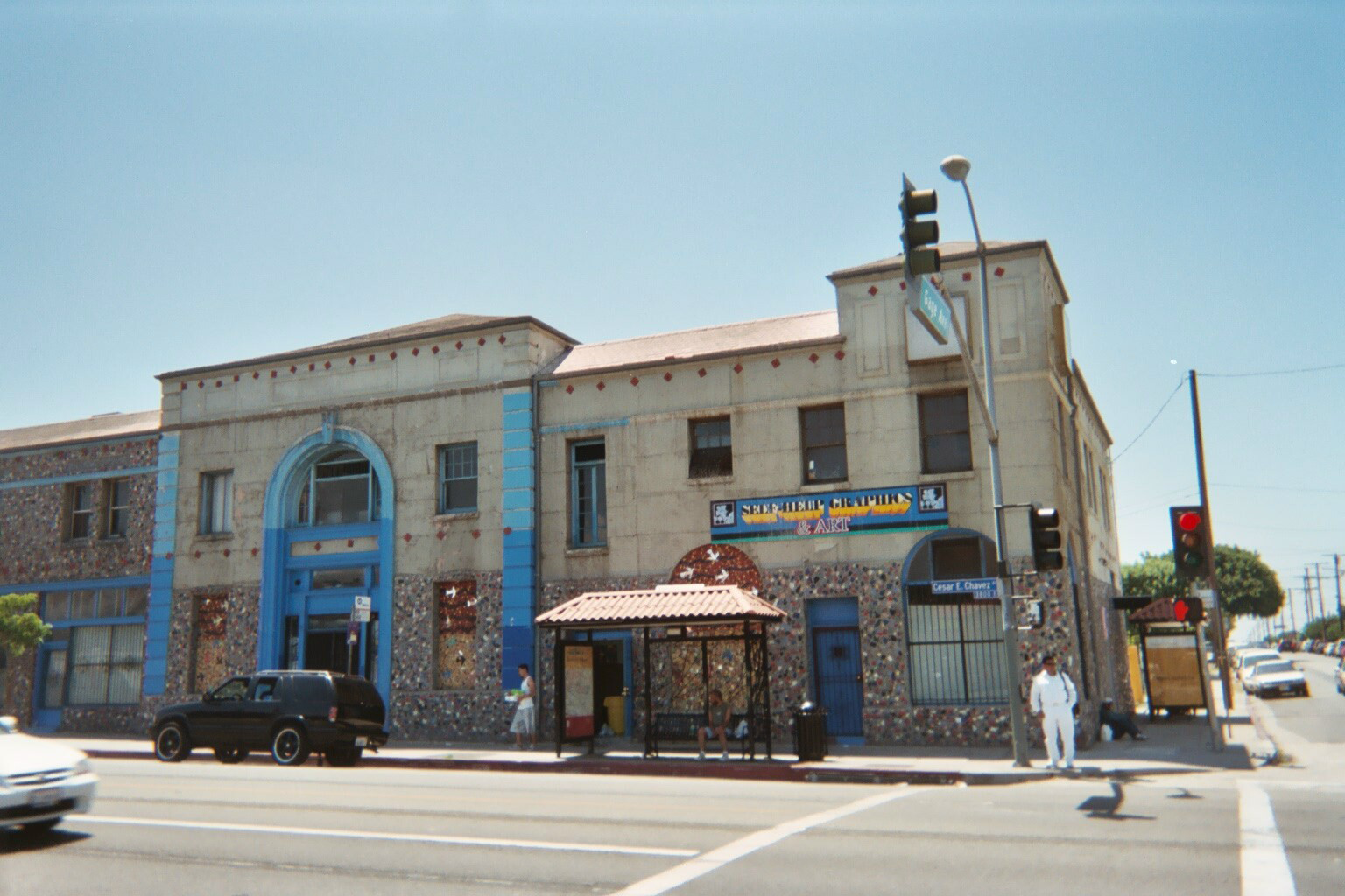 Self-Help Graphics & Art building, East Los Angeles. Taken (by me) July 9, 2006.